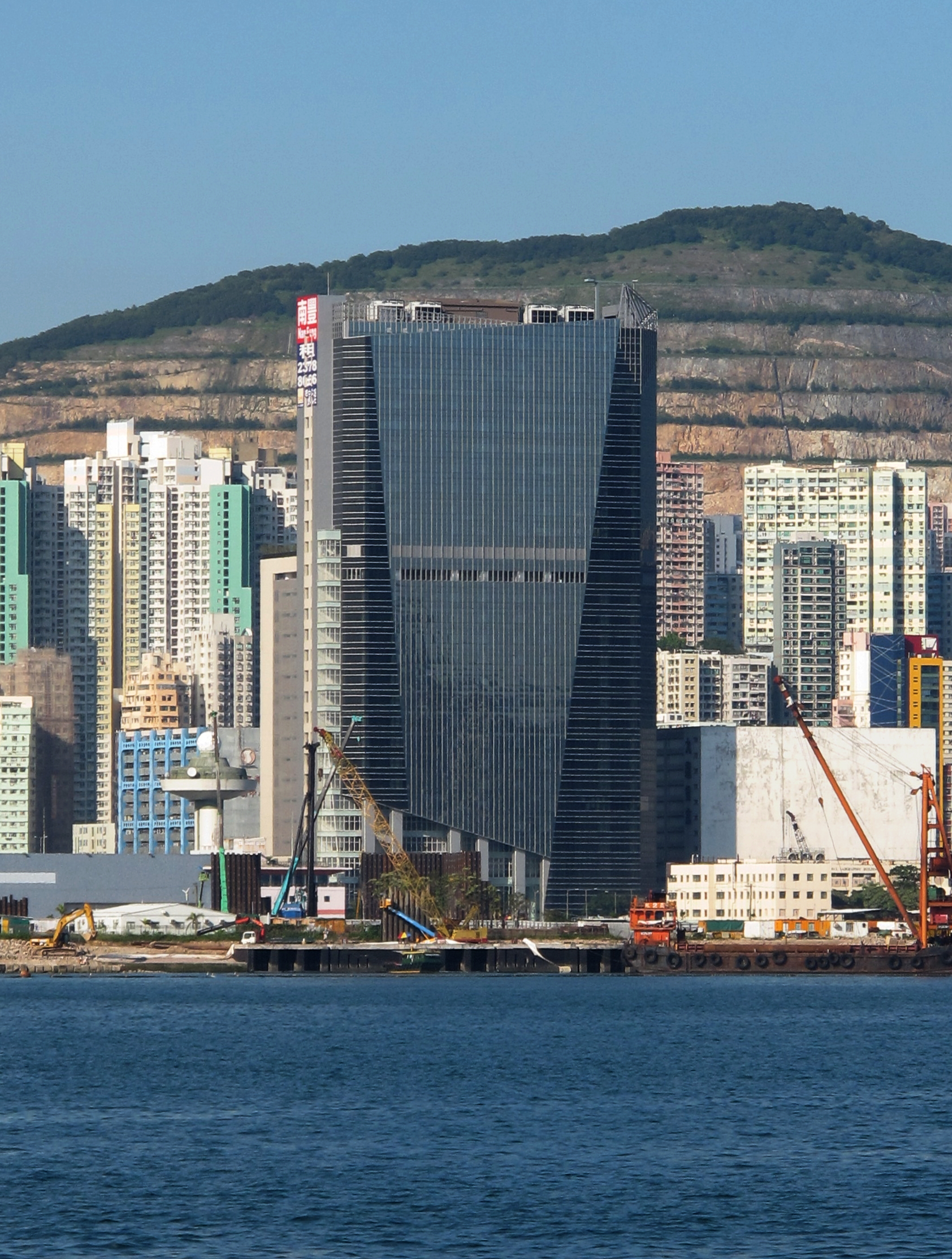 傲騰廣場 Octa Tower in Kowloon Bay